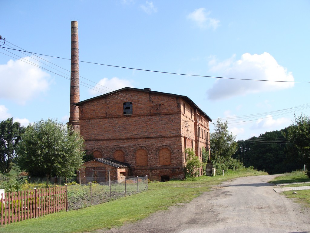 Gaj, former distillery.